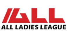 ALL Ladies League (ALL) is the world’s largest All-inclusive international women’s chamber and a movement for the Welfare, Wealth, and Wellbeing of ALL.